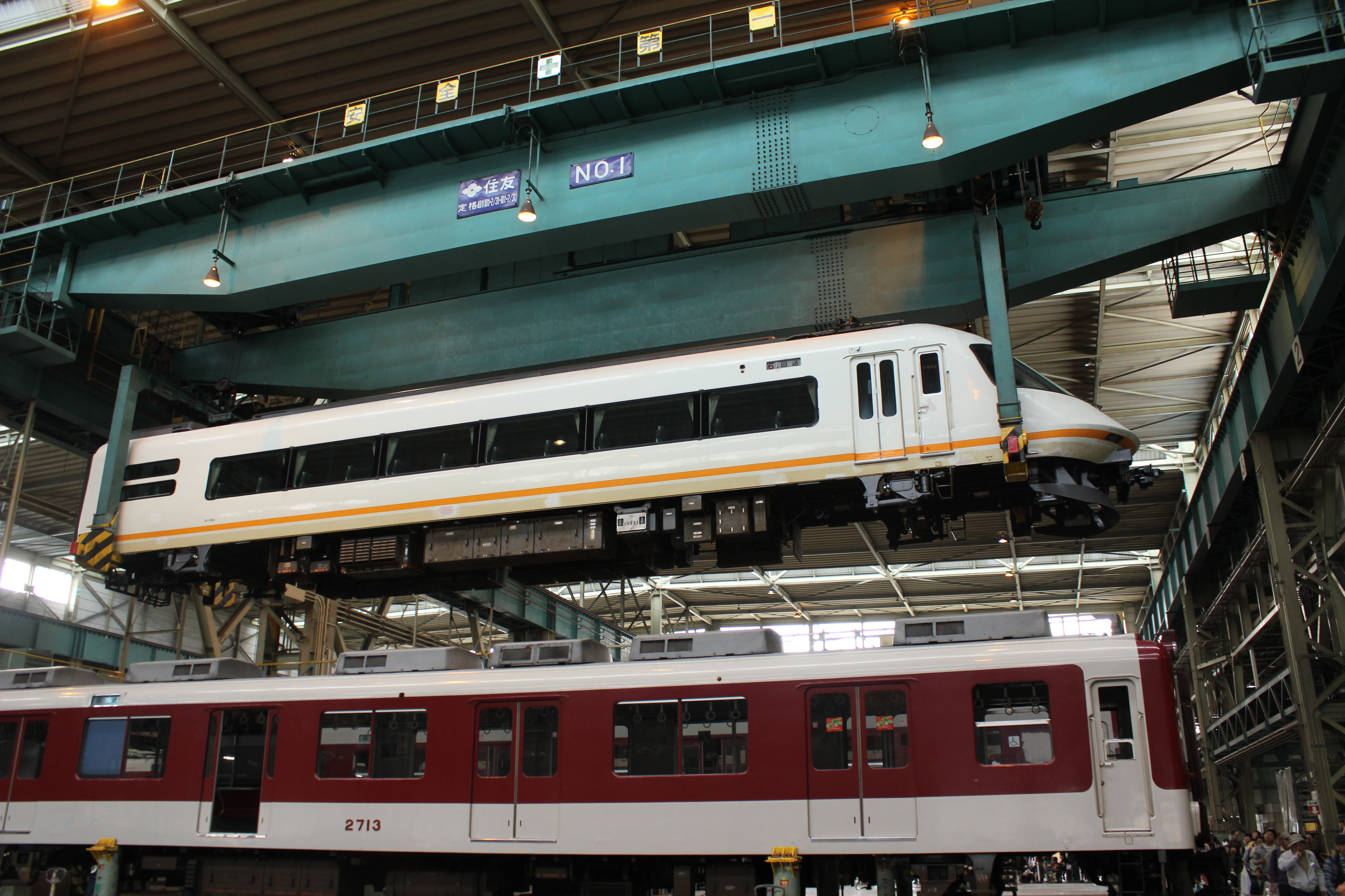 Kintetsu 21000 series EMU at Goido Inspection Depot